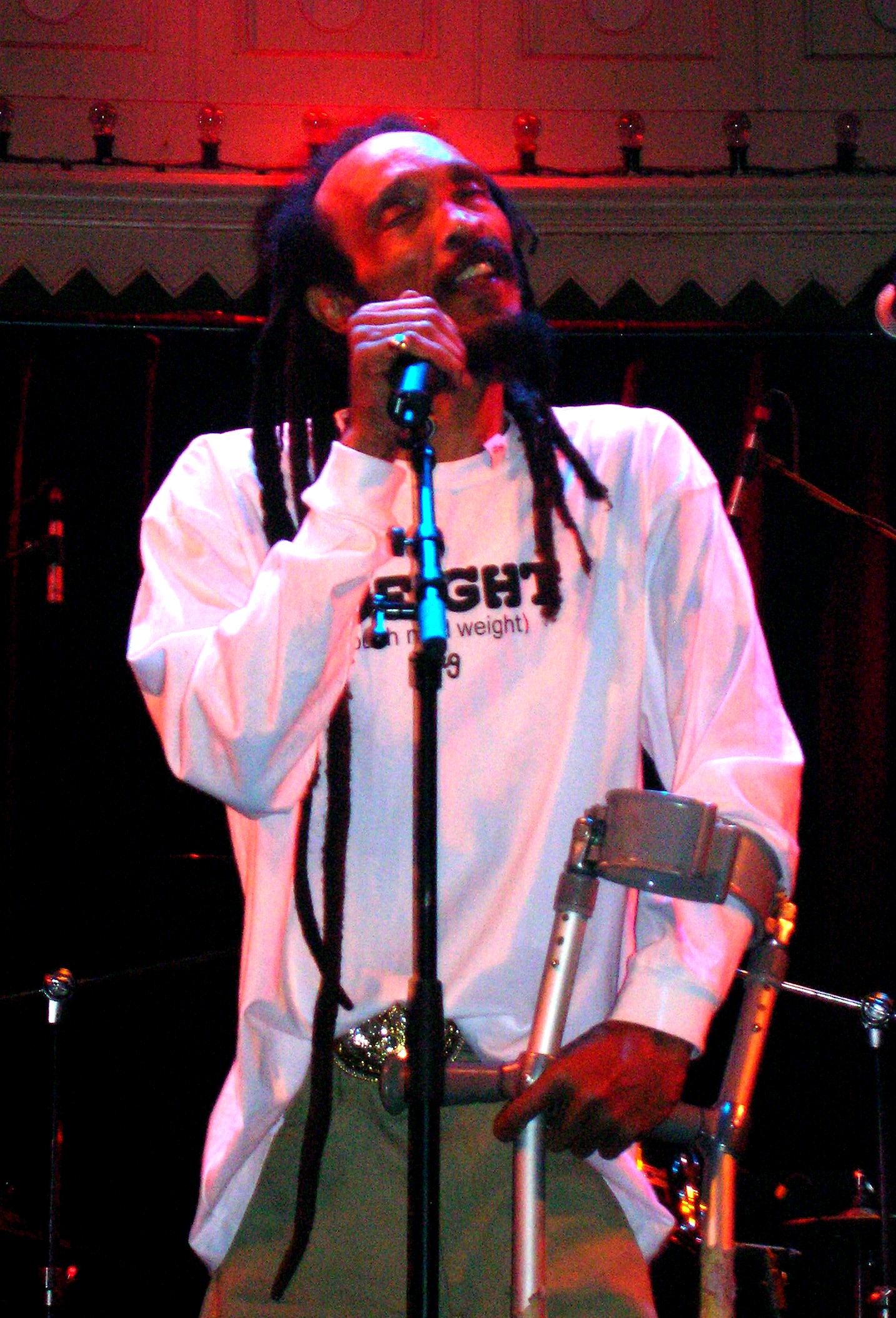 Cecil 'Skelly' Spence, from the Israel Vibration band.